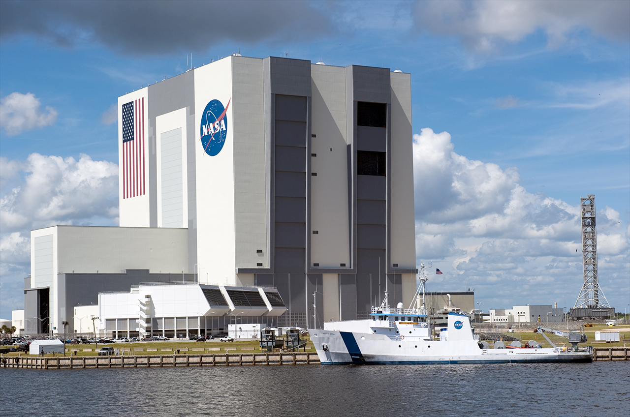 The Solid Rocket Booster retrieval ship Liberty Star is seen in front of Kennedy Space Center's Vehicle Assembly Building and Launch Control Center.